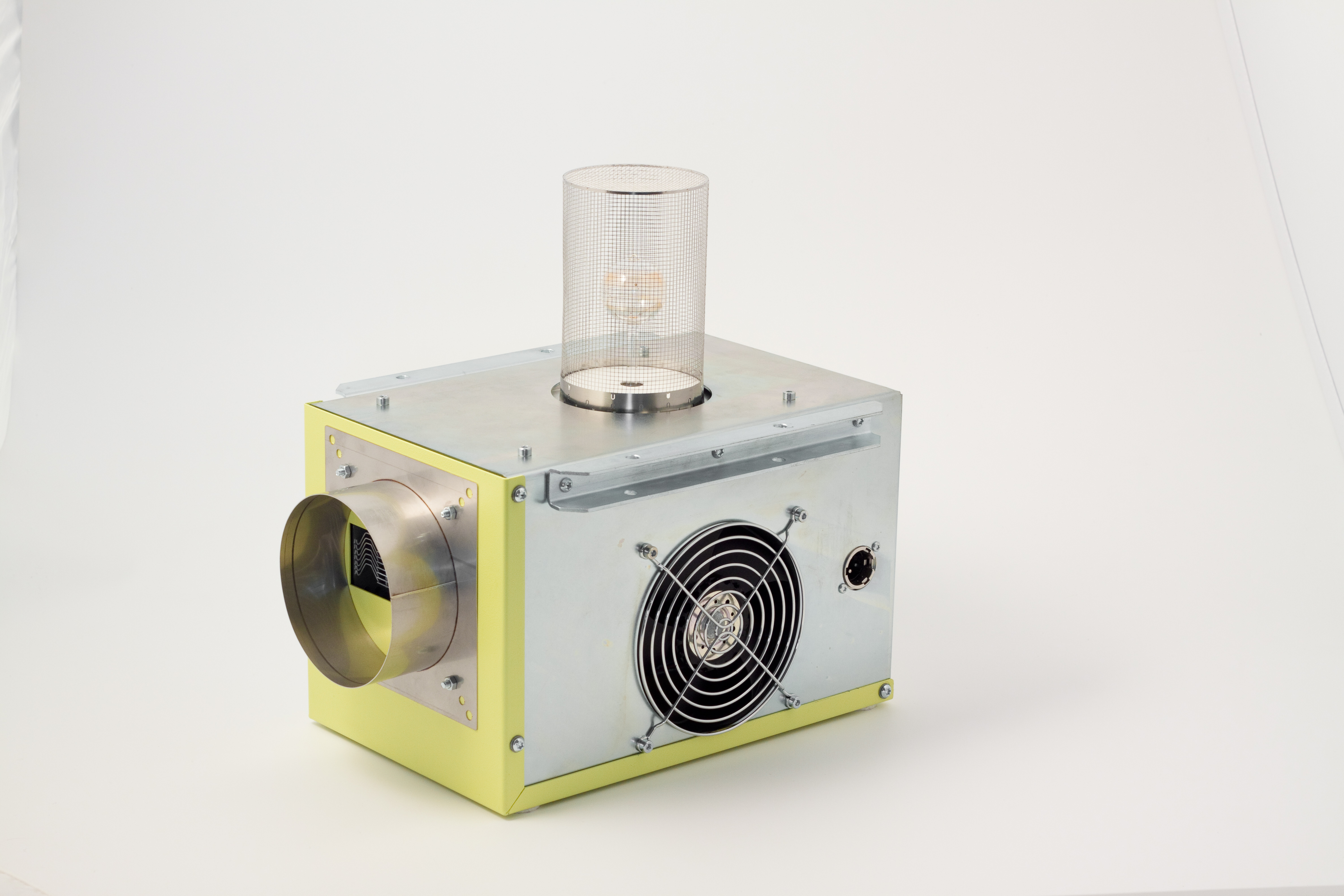 Plasma lamp first generation for solar simulation